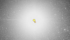 Position of Alpha Centauri and Alpha Centauri B. (Proxima Centauri is not visible)